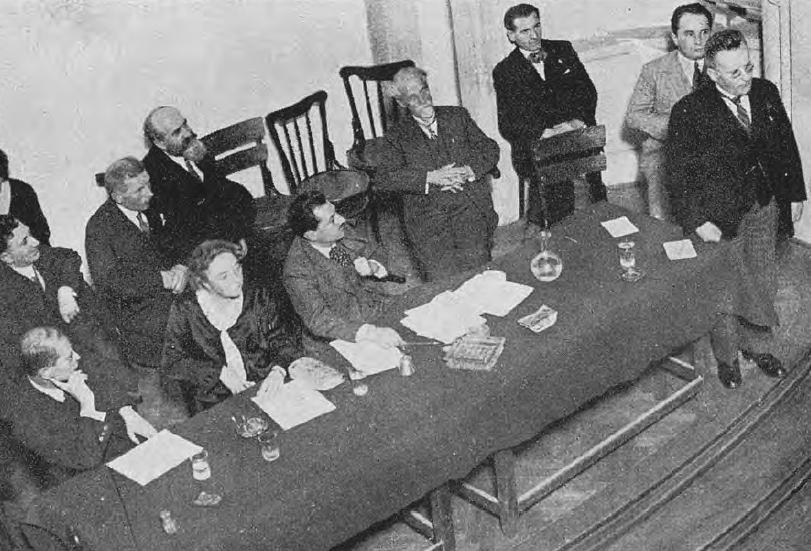 Socialist Interparliamentary Conference, Bucharest, 1931. On the right, standing: Paul Löbe of the German Social Democratic Party. Behind him, seated: Romanian Social Democrats Lothar Rădăceanu (right) and Ion Mirescu. To Mirescu's left is Yanko Sakazov, of the Bulgarian "Broad Socialists". The compact group at the left includes: (front row, right to left) Romanian Social Democrat Constantin Titel Petrescu, a Czechoslovakian female delegate, and Leo Winter, also of the Czechoslovak Social Democratic Workers Party; (back row, left to right) a Czechoslovakian delegate, the Belgian delegate, and Romanian Social Democrat Ilie Moscovici.